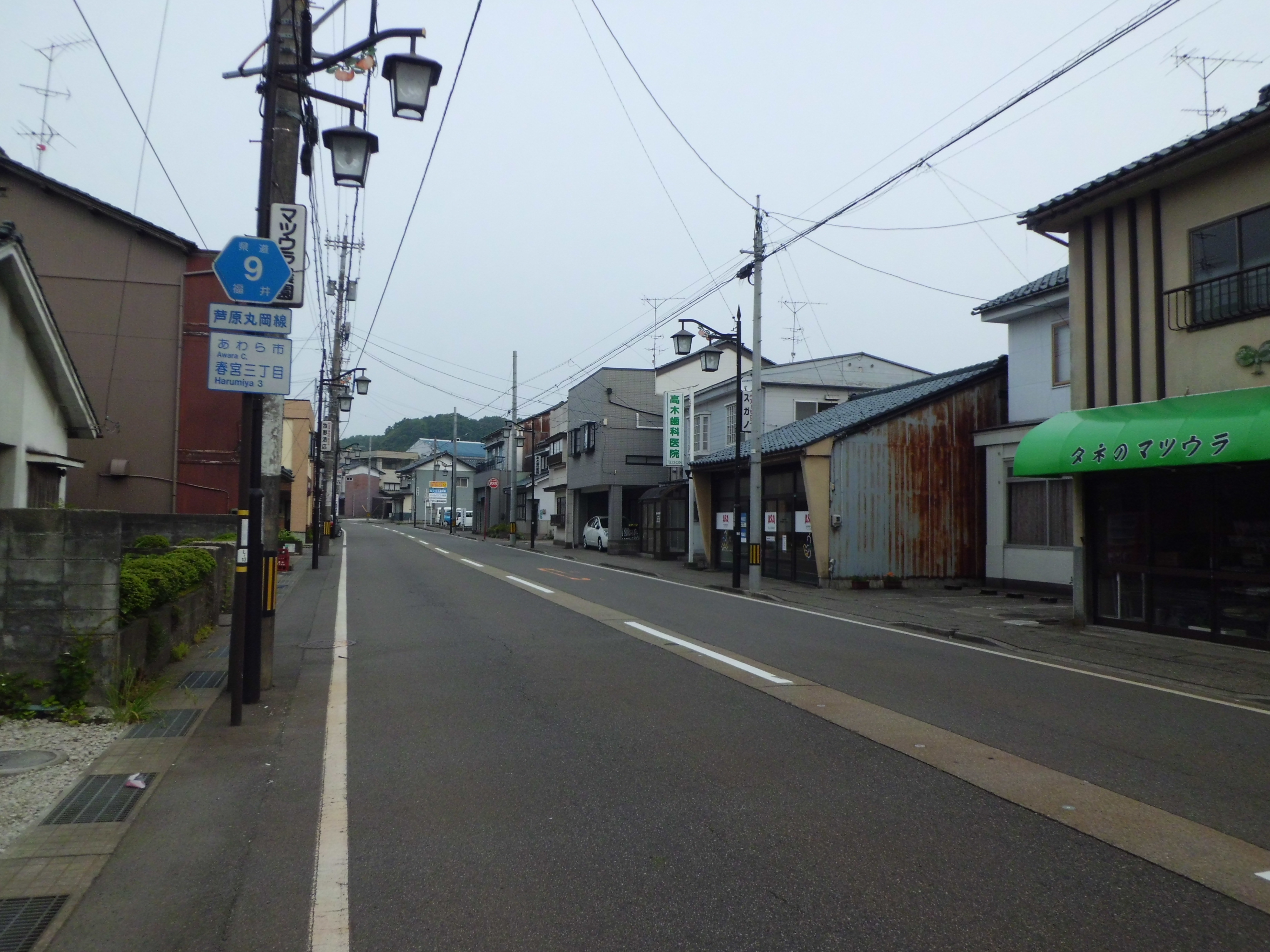 Fukui prefectural road 9 Awara-Maruoka line. Looking west from Toka intersection, Awara city.